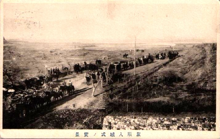 Japanese postcard of Japanese troops marching into Port Arthur after its surrender during the Russo-Japanese War of 1904-1905